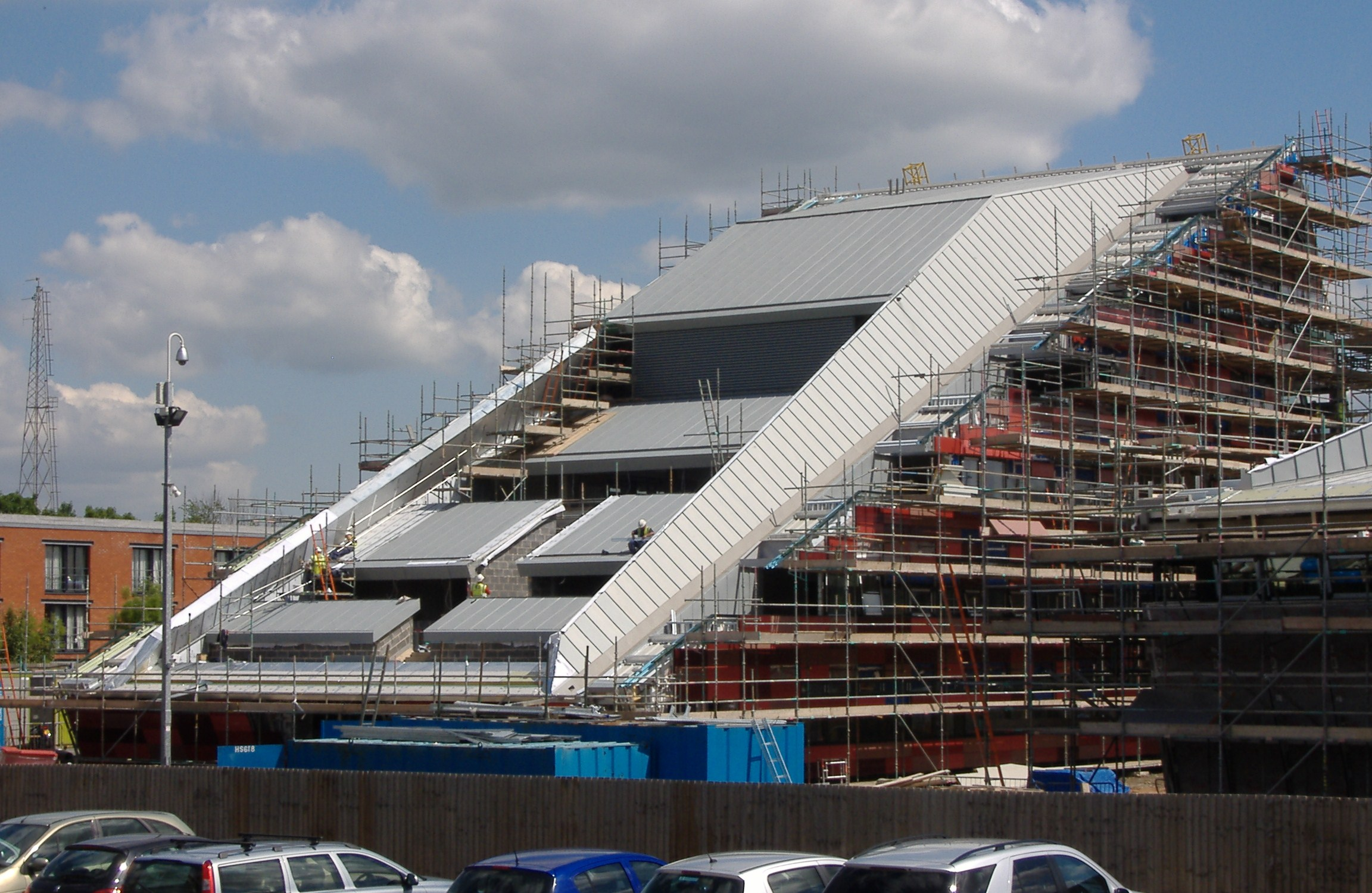 Building work on Jubilee Campus for International House.